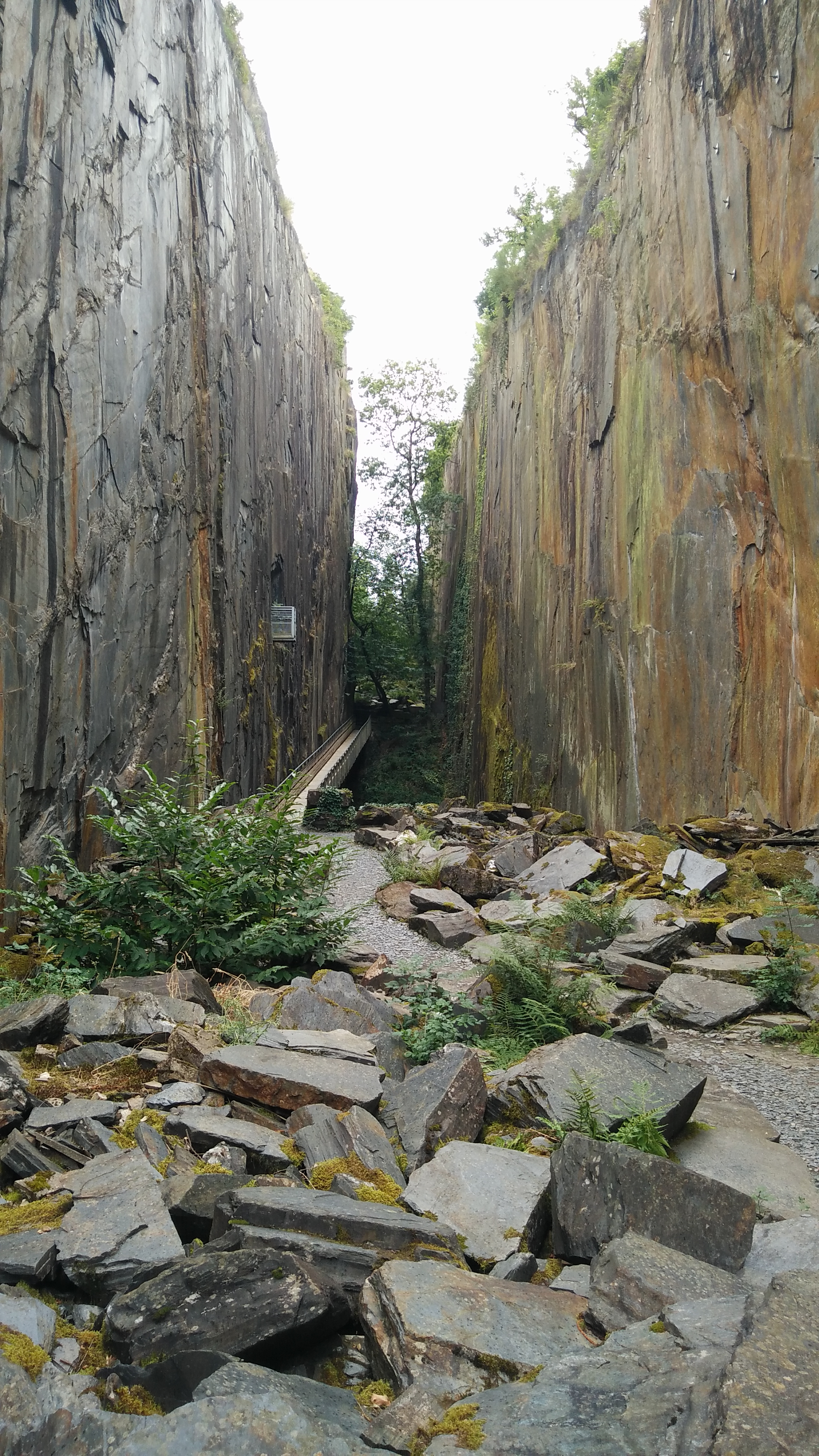 A view of the slate quarry of Travassac, Donzenac (France)